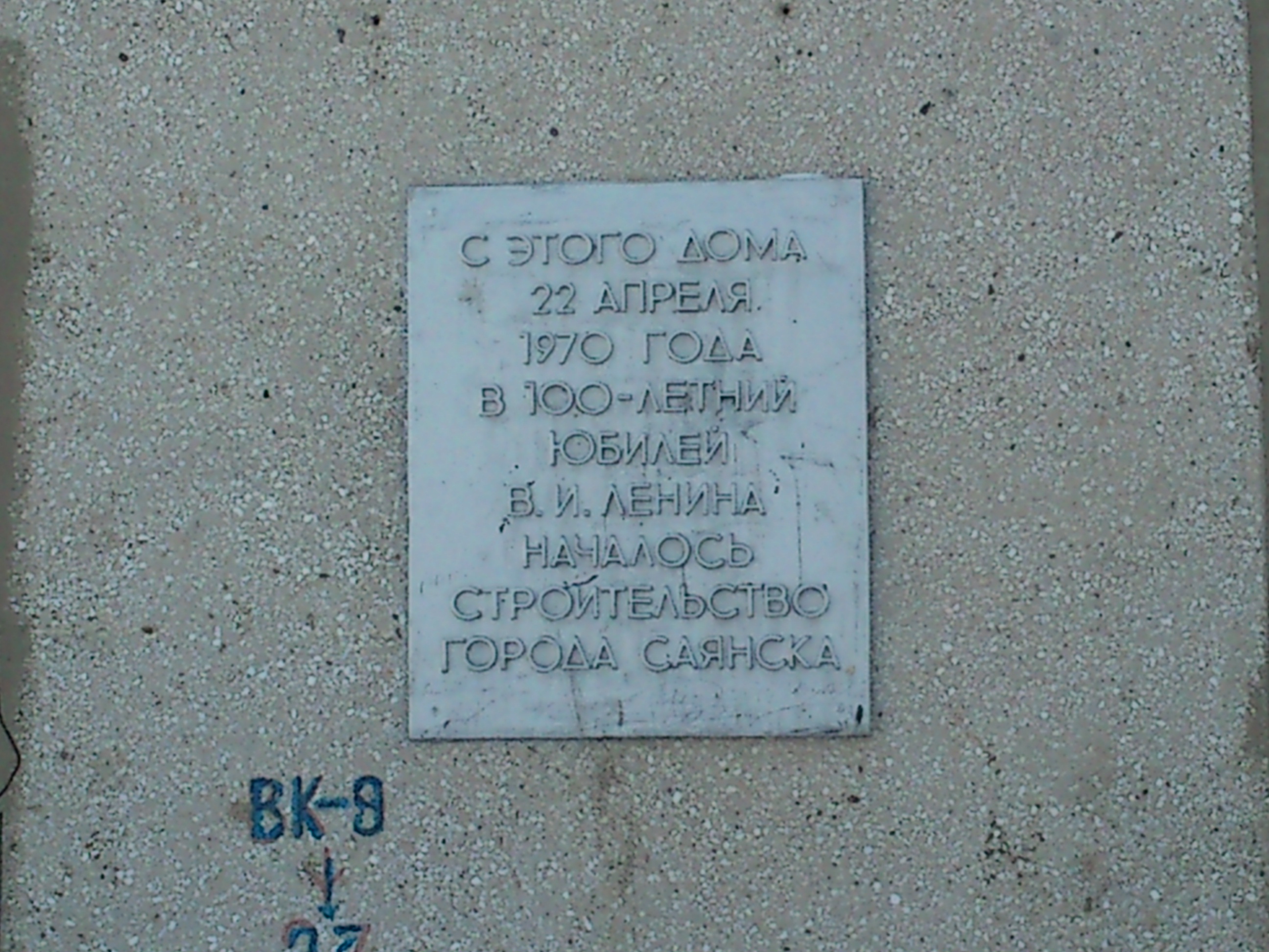 plaque commemorating the foundation of Sayansk